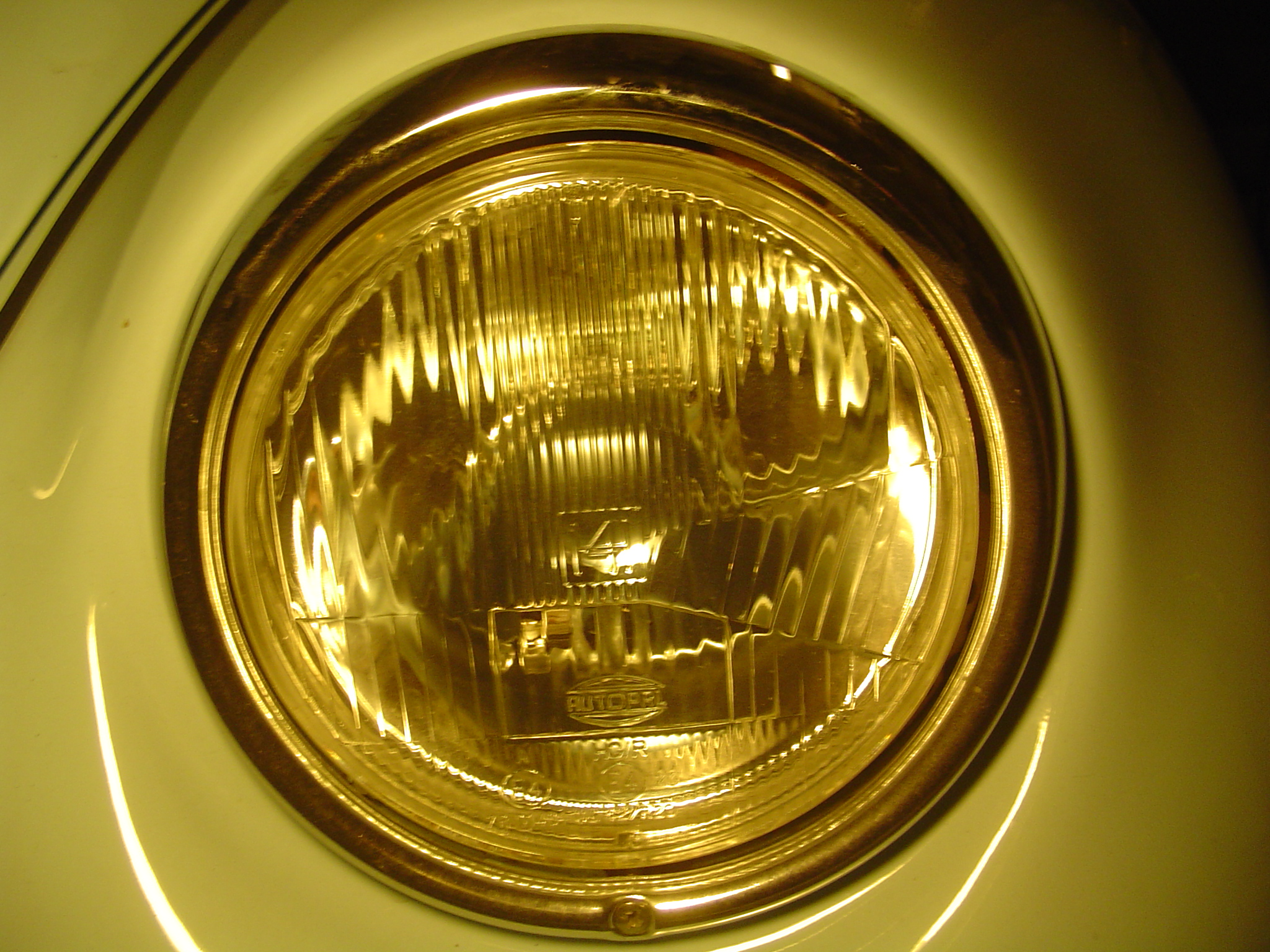 Beetle_front_light, for halogen bulbs type H4